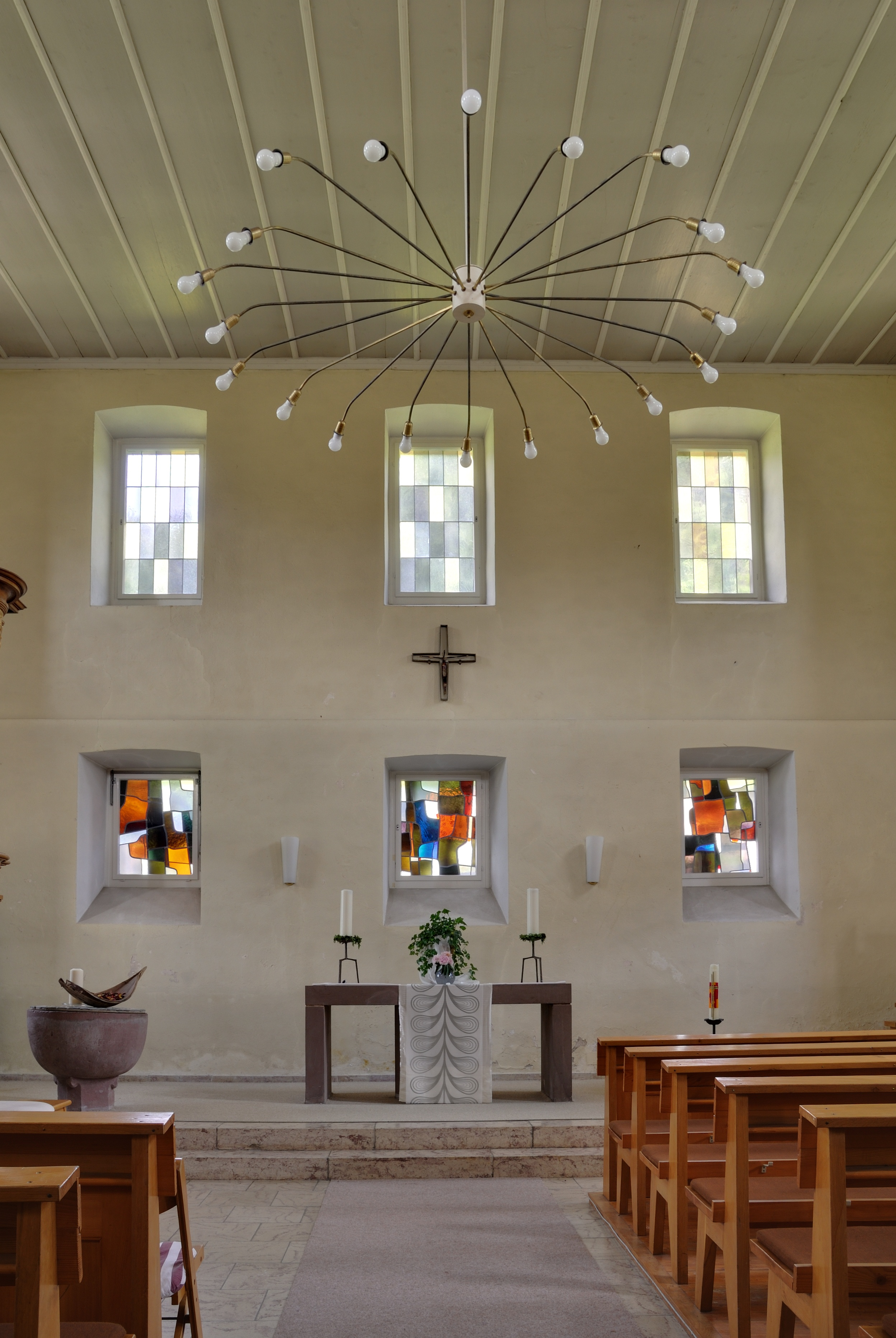 Kaltenbach: Protestant Church